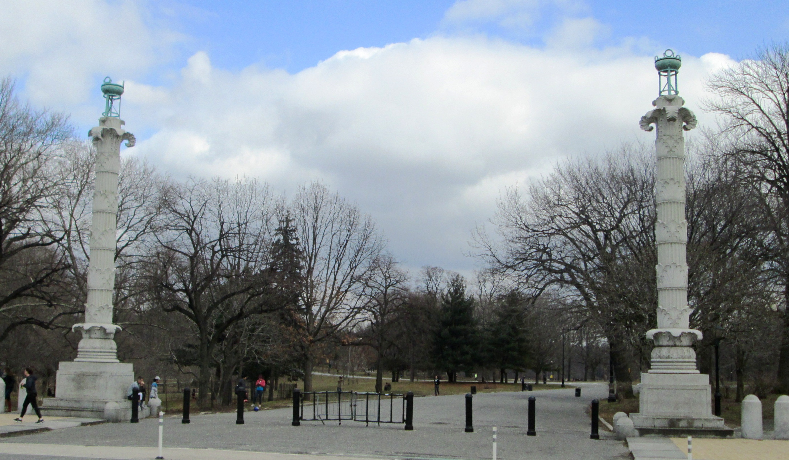 The Bartel-Pritchard Circle Columns at the entrance to Prospect Park in Brooklyn, New York City off of Bartel-Pritchard Square in the South Slope neighborhood were designed by noted architect Stanford White. The columns and plinths are granite and the bowls and tripods are bronze. They were cast c.1906 and dedicated c.1911. (Source: NYC Parks Dept)